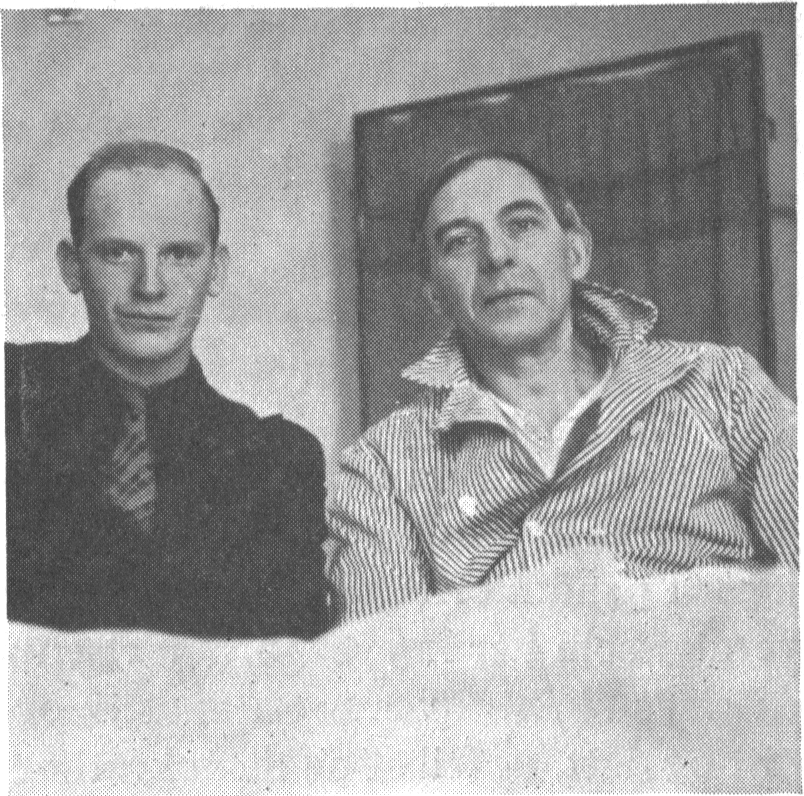 The Norwegian writer Ronald Fangen in Ullevål Hospital, guarded by a policeman.